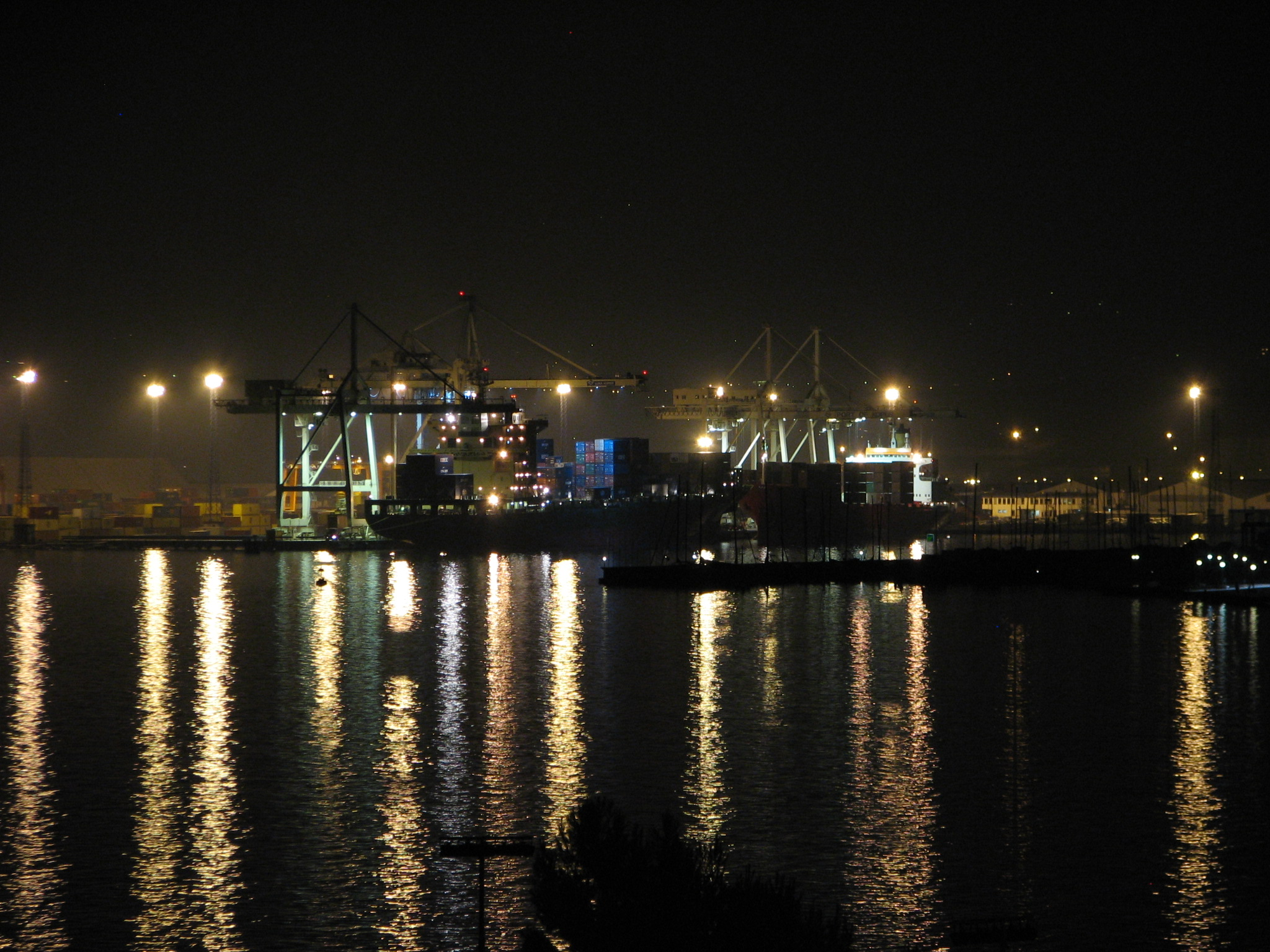 Port of Koper by night